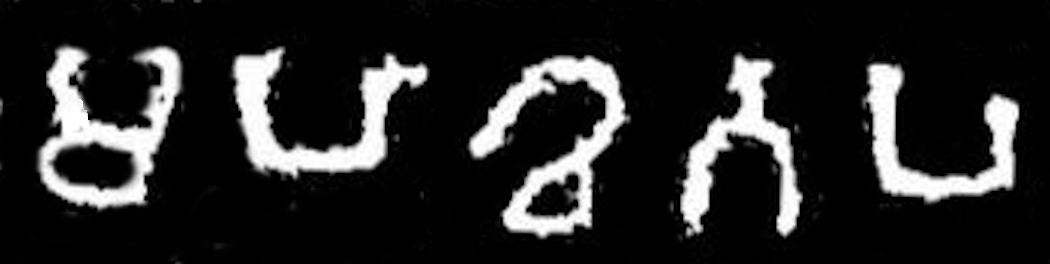 Word "Mahakhatapa" on an inscription of the Western Satrap Prime Minister of Nahapana at the Manmodi caves, circa 100 CE